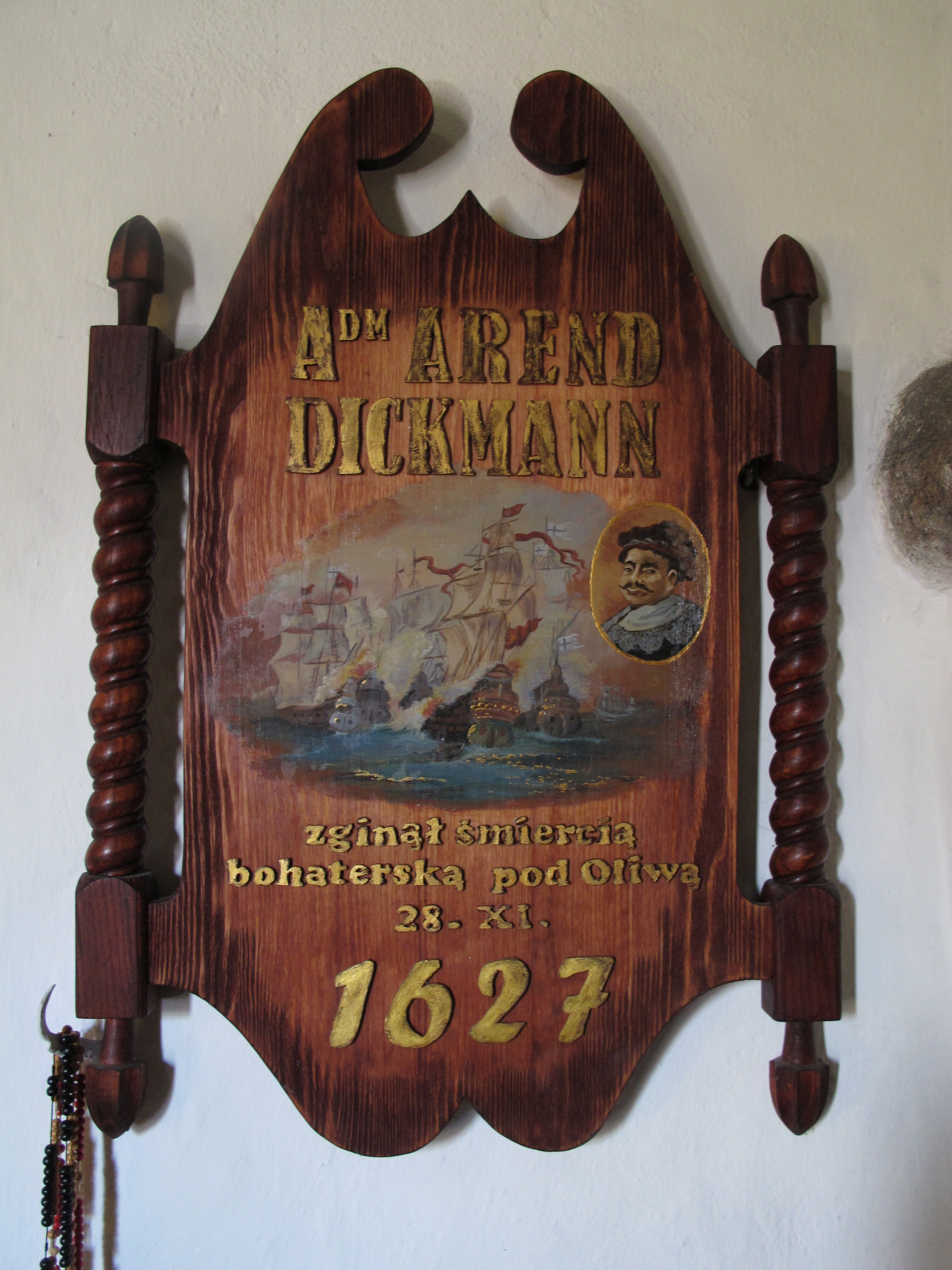 Gdynia - Michael Archangel church - Admiral Arend Dickmann memorial plaque.